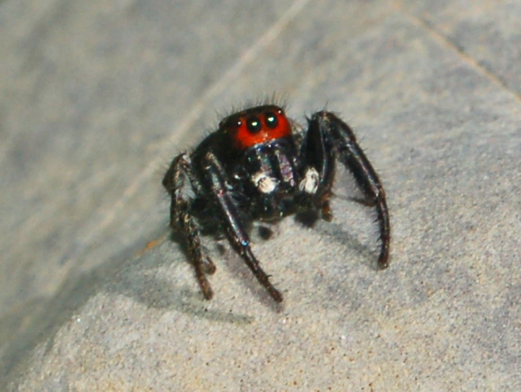 Pellenes seriatus, male in Torriglia, Genova, Italy